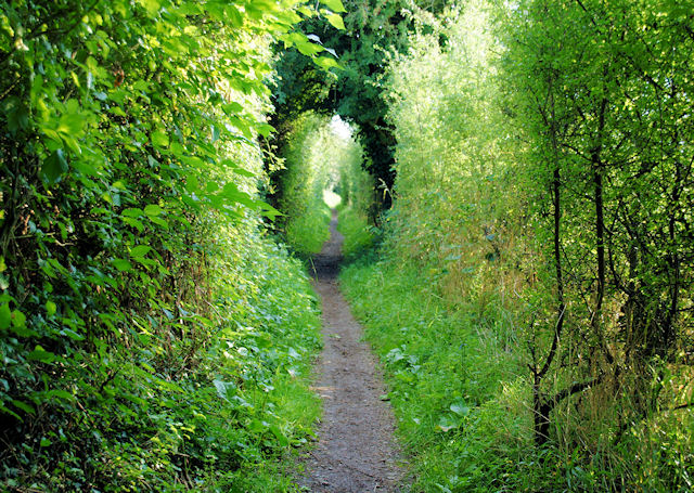 St Swithun's Way St Swithun's Way and Allan King's Way, known locally as Nun's Walk. The Itchen Way and Three Castles Path run east of the river here.